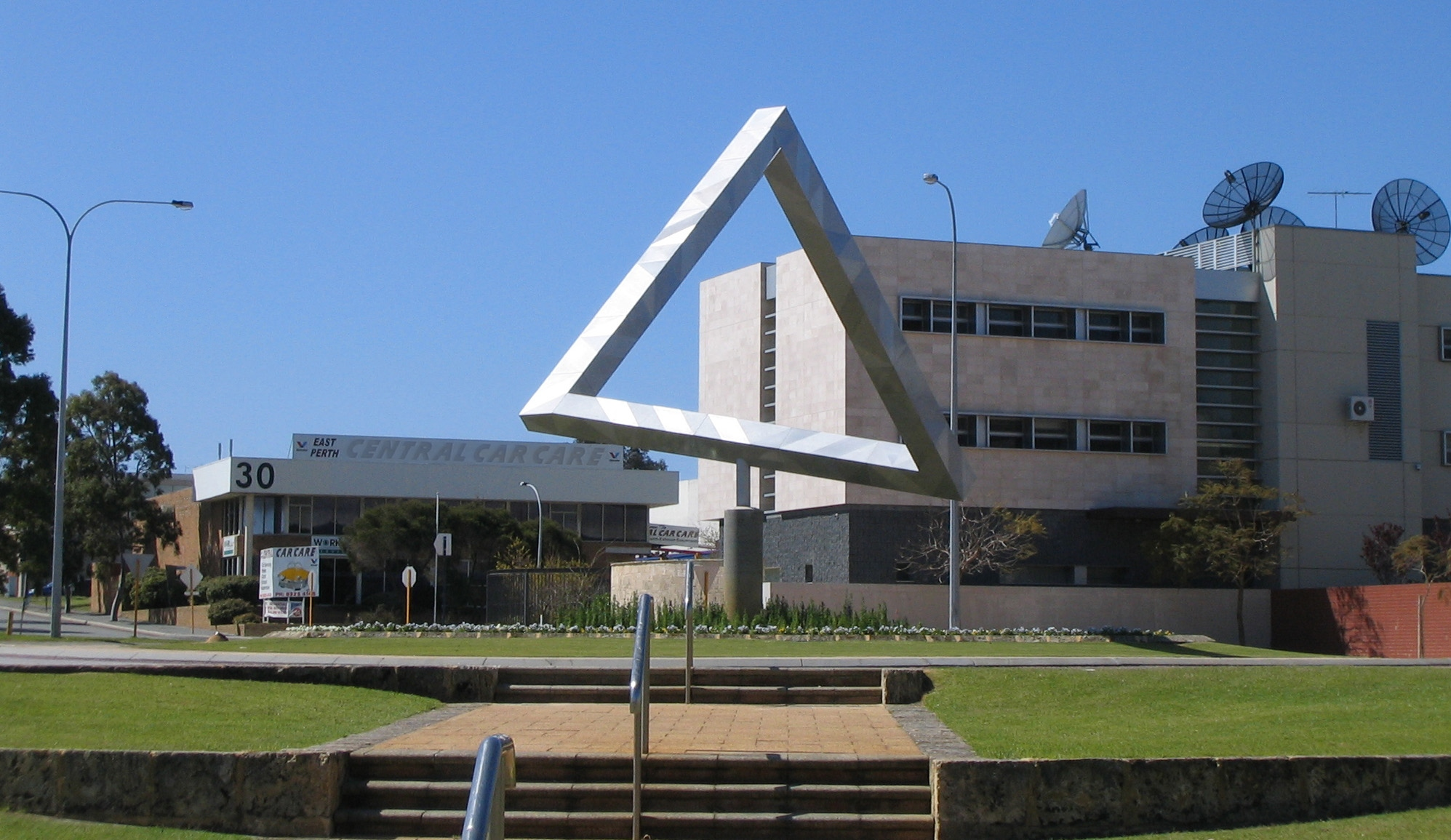 Impossible Triangle sculpture by Brian MacKay & Ahmad Abas, Claisebrook roundabout, East Perth, Western Australia. The structure is actually disjointed, and was photographed from one of the two spots that it was designed to be seen from. Have a look at this image, page 6 of this PDF or Page 23 of this one for images of the triangle shot from street level.